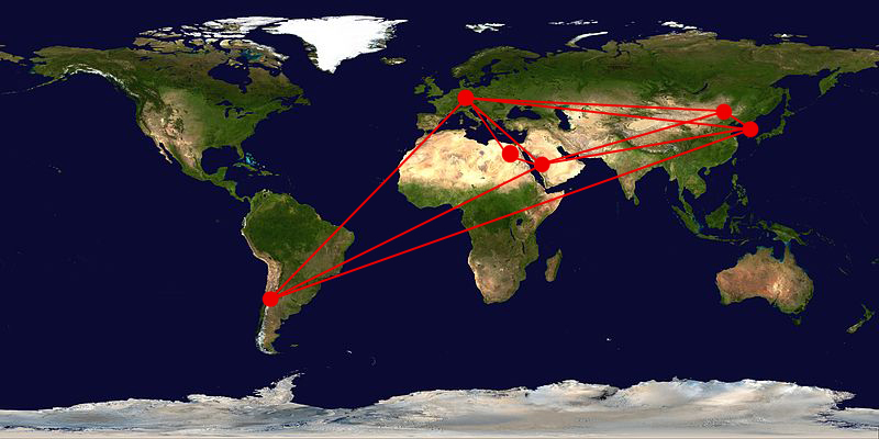 ISA’s International Locations